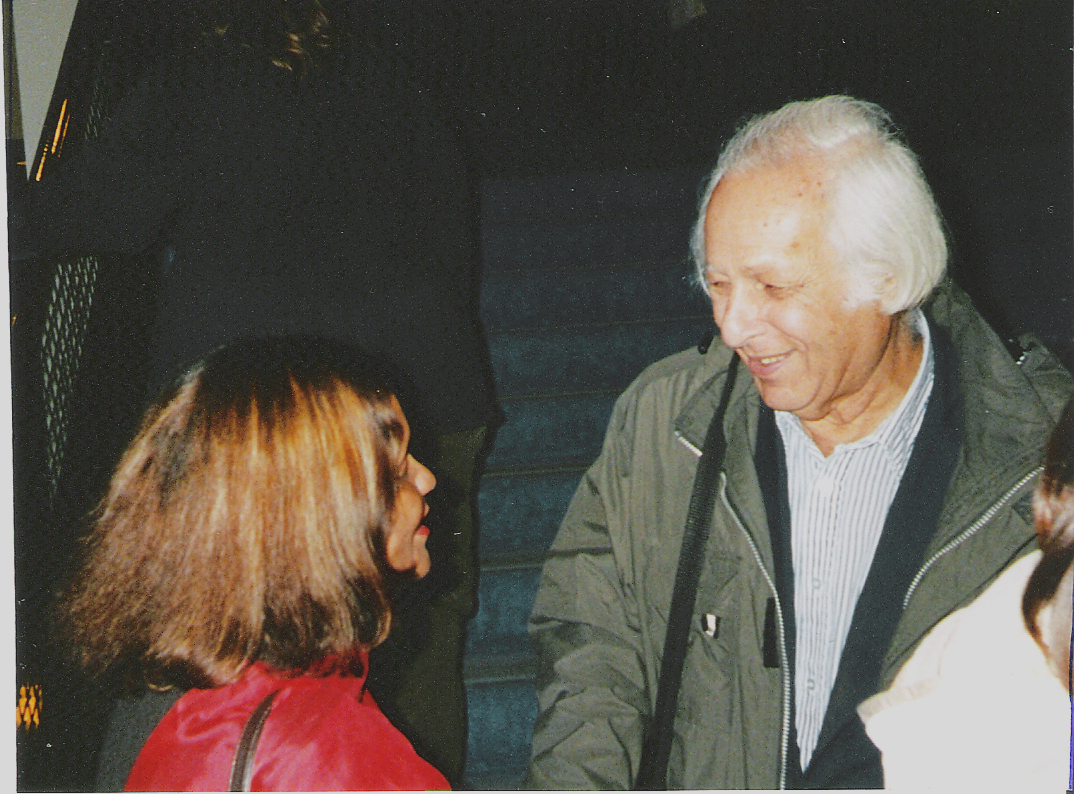 Neris Juliao and Samir Amin